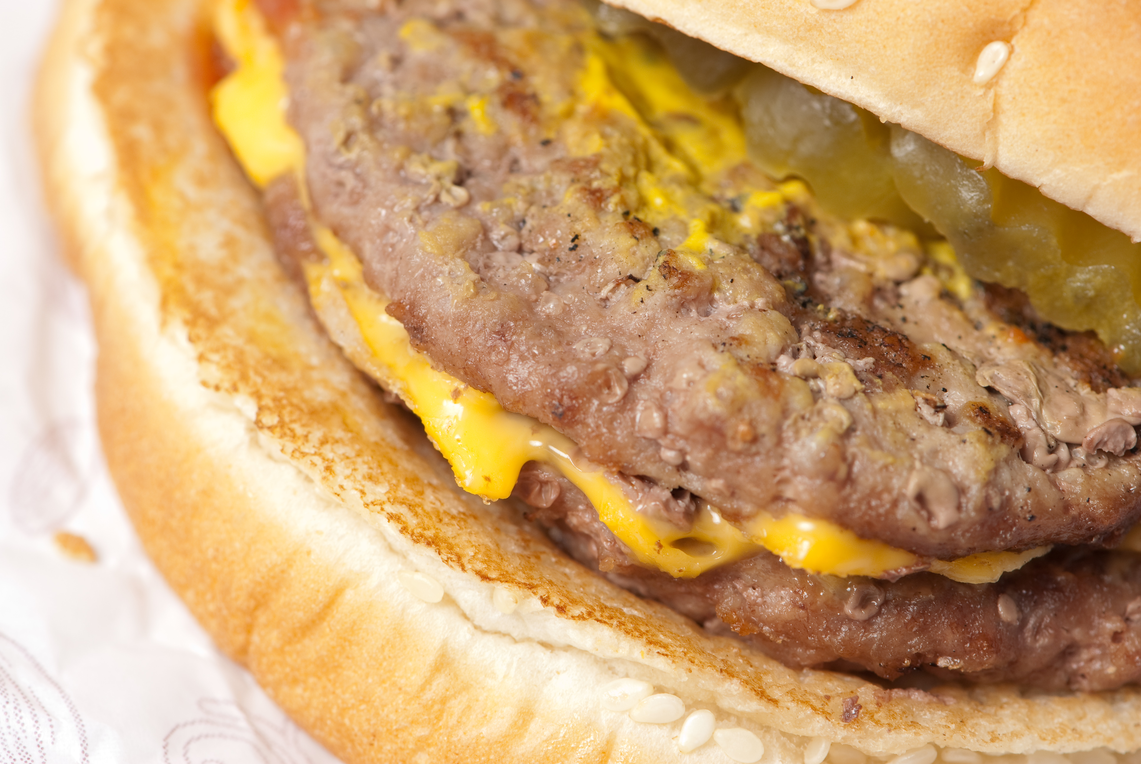 A close up shot of the Buck Double, a cheeseburger from Burger King.